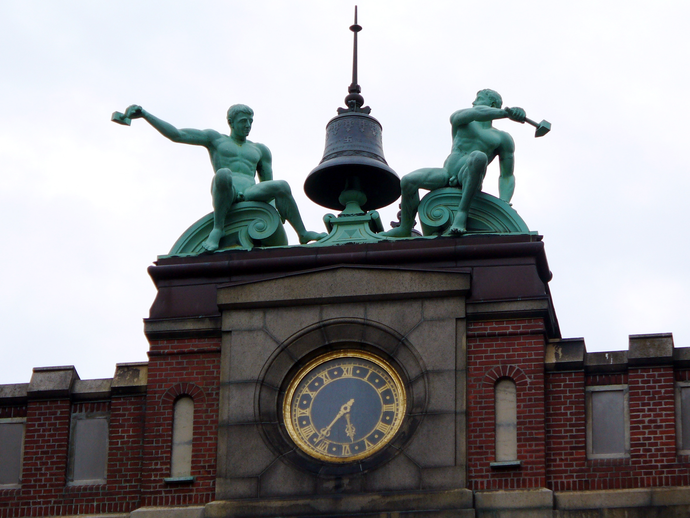 The clock and bell at the top of the Dupylon building in the Carlsberg area of Copenhagen, Denmark